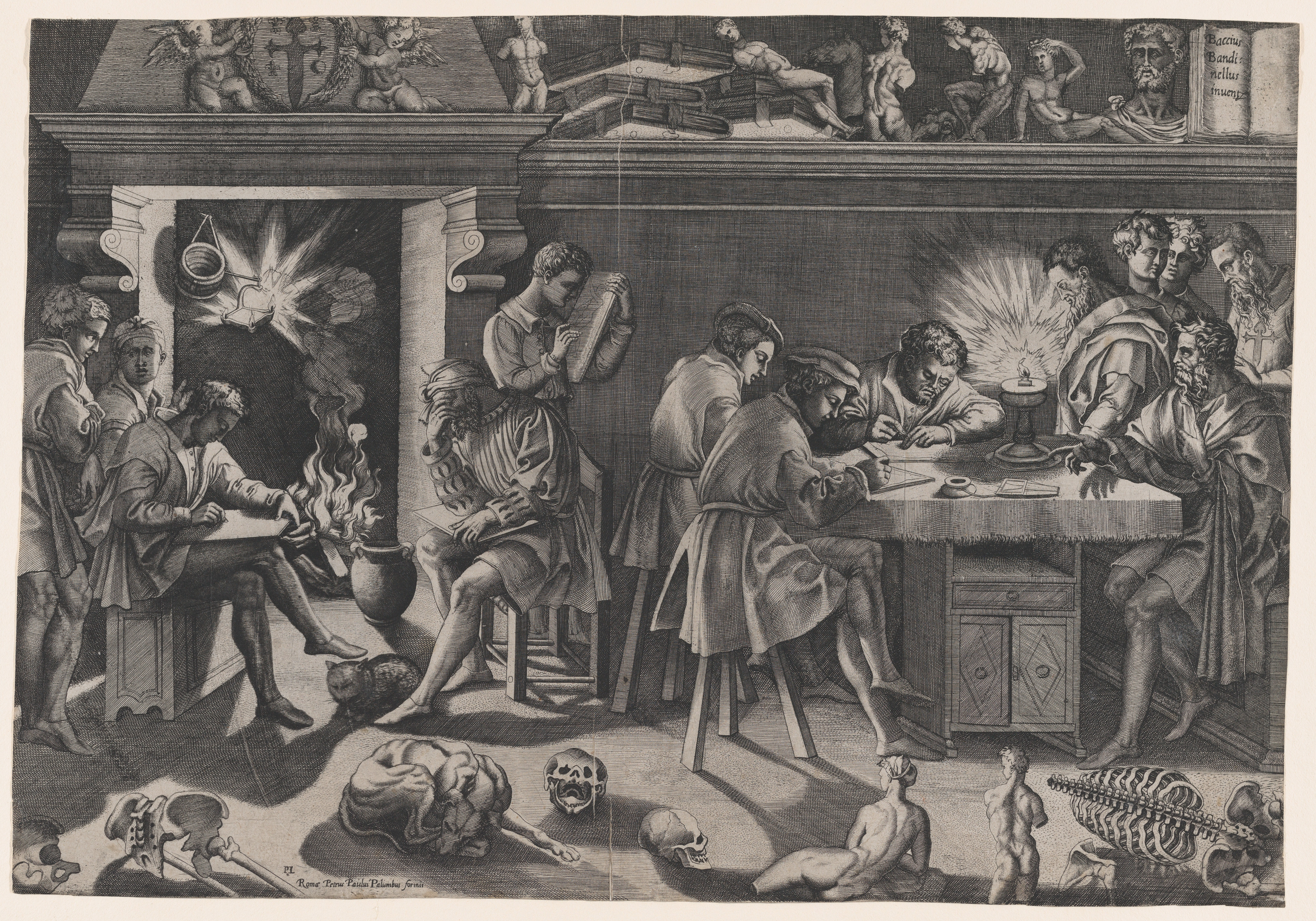 Print; Prints